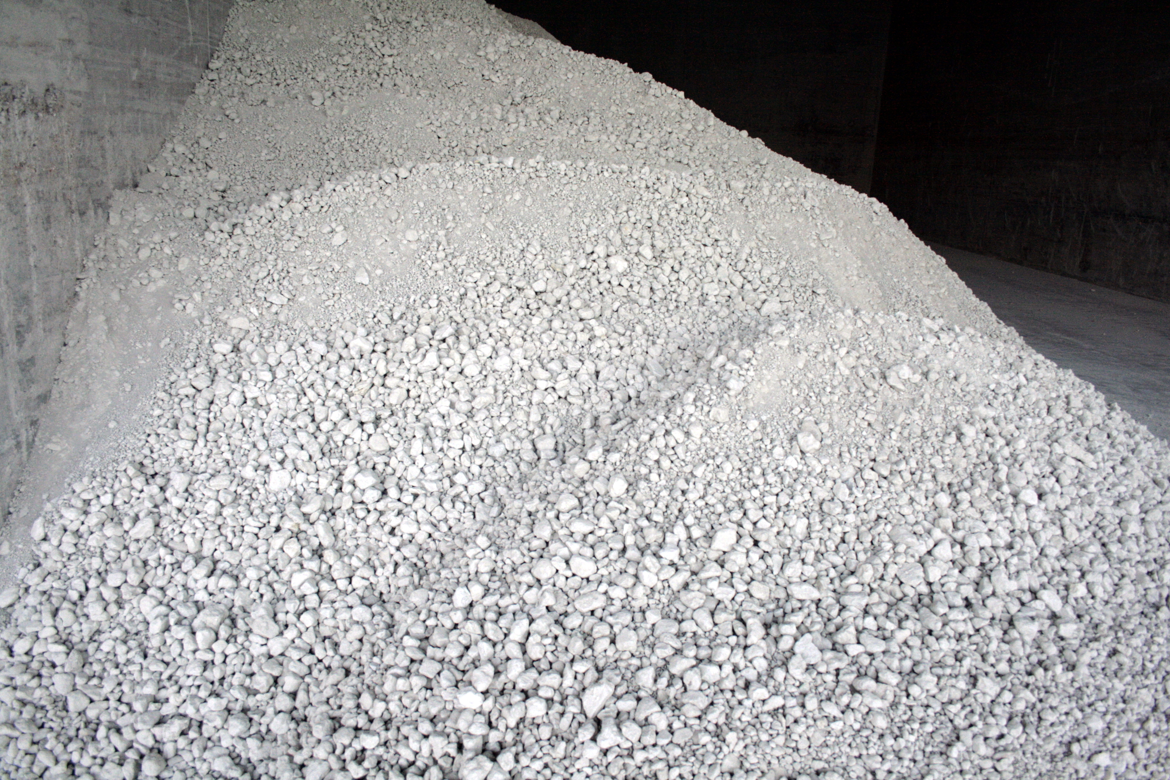 Clay minerals after treatment